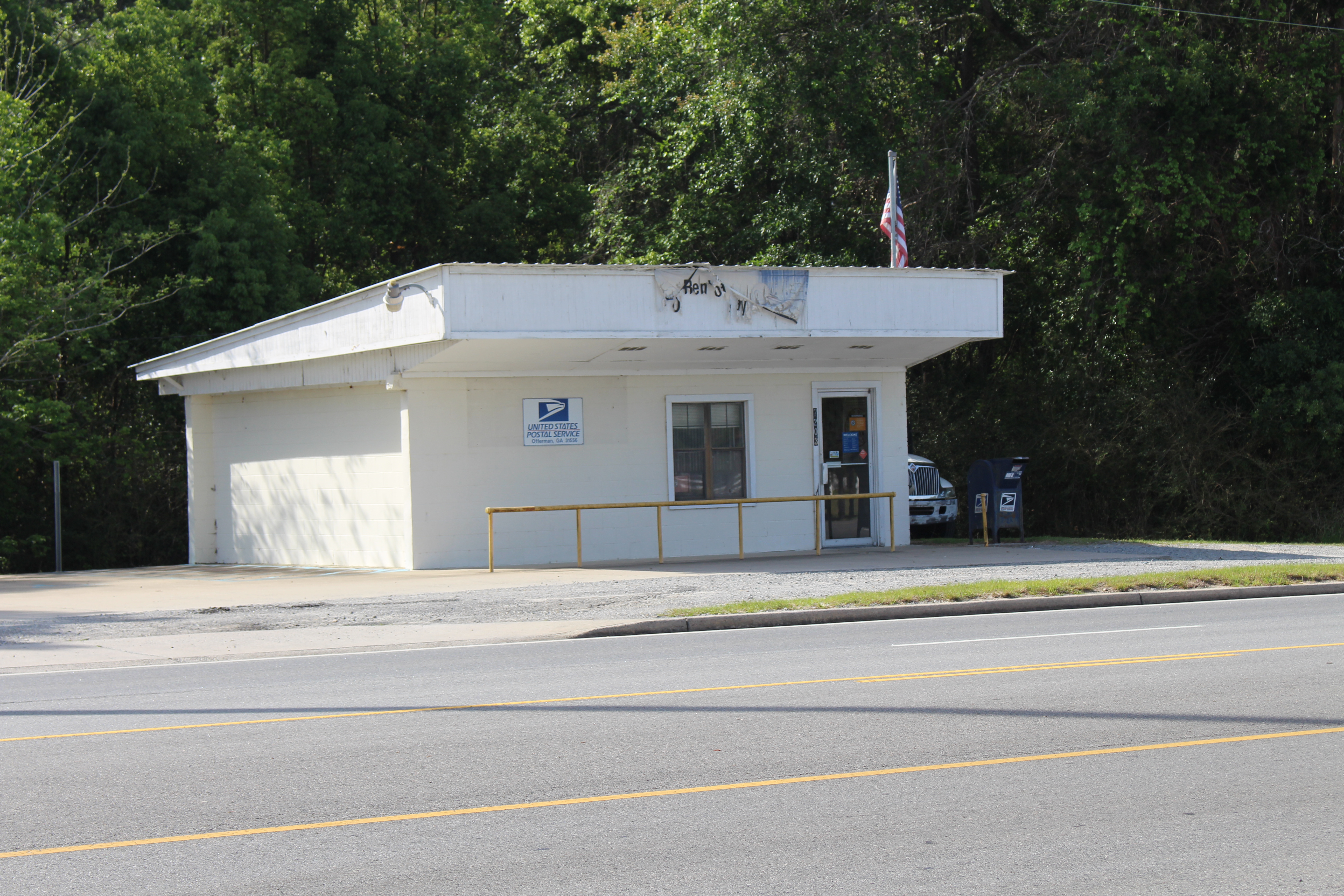 Offerman Post Office, Offerman, Pierce County, Georgia